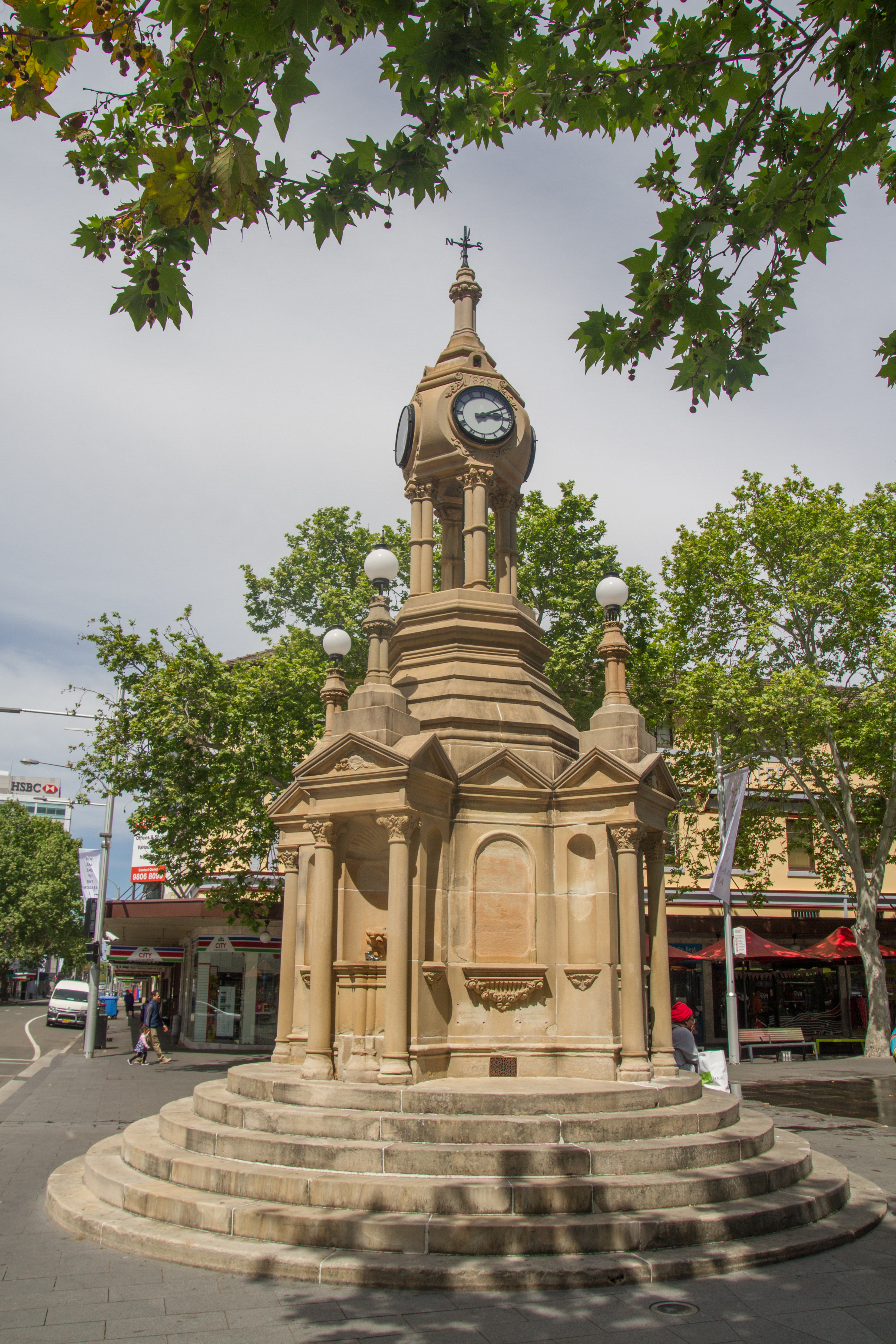 Parramatta Centennial Memorial Clock